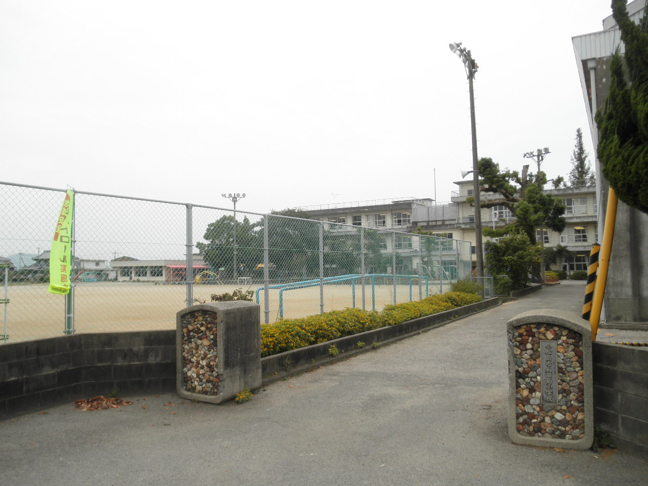 Wadajima Elementary School